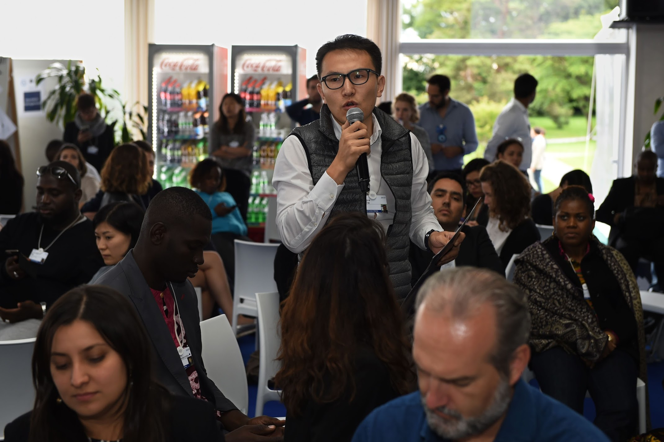 Mongolian journalist Lkhagva Erdene at a press conference event